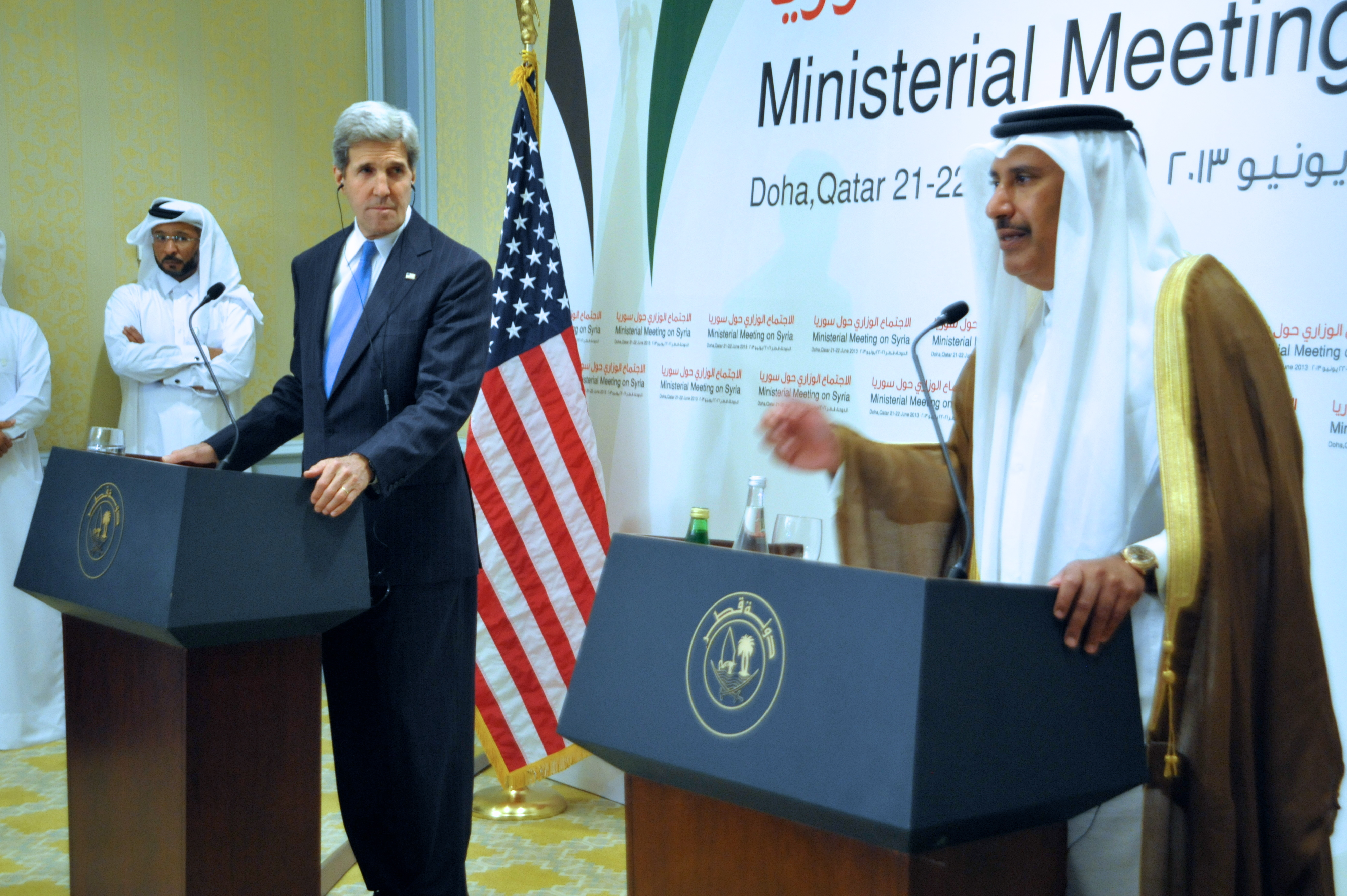 U.S. Secretary of State John Kerry addresses reporters with Qatari Prime Minister Sheikh Hamad bin Jassim bin Jabr Al Thani after a meeting of the London Eleven in Doha, Qatar, on June 22, 2013. [State Department photo/ Public Domain]